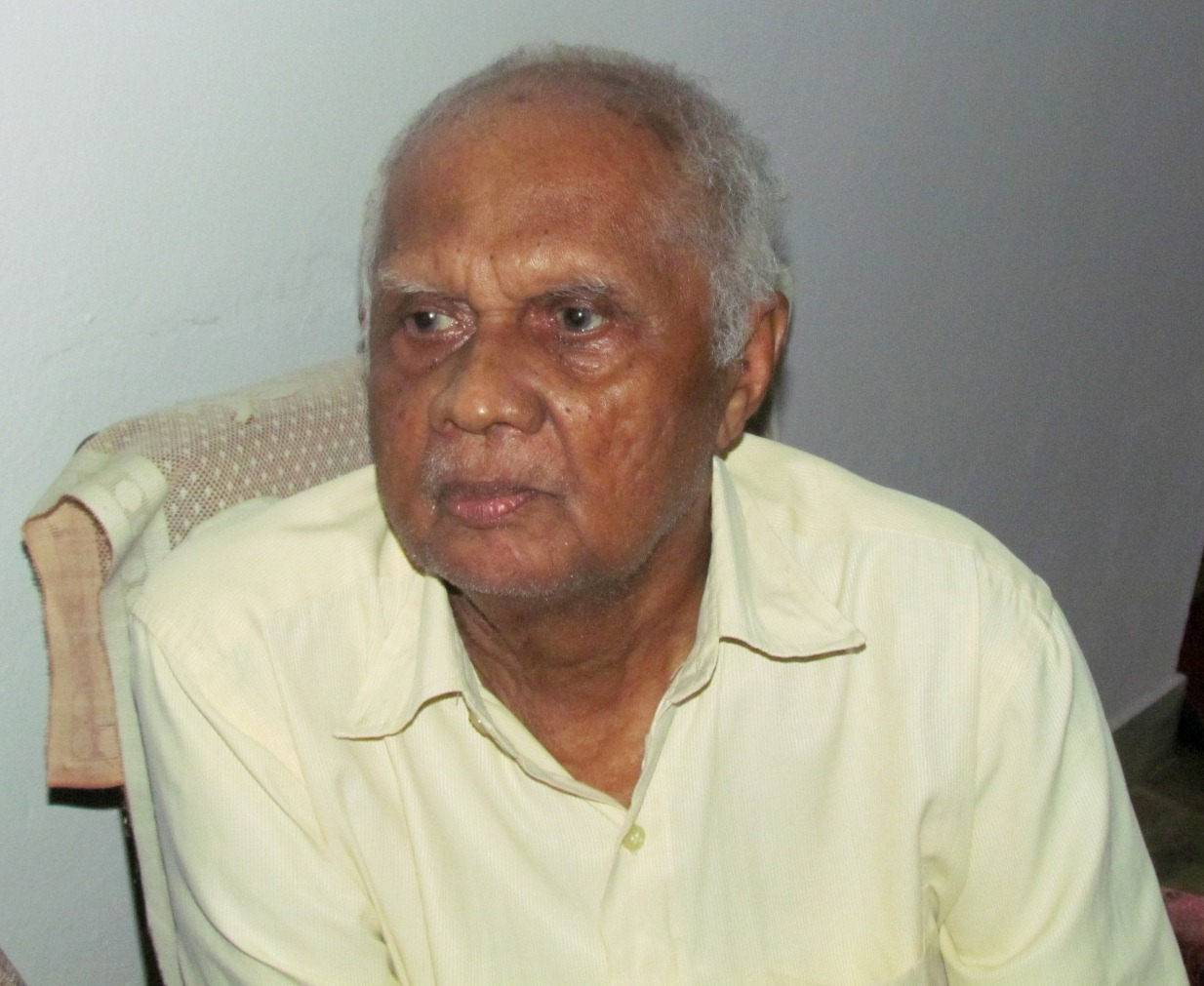 writer and left thinker P.K. Mohammed Kunji